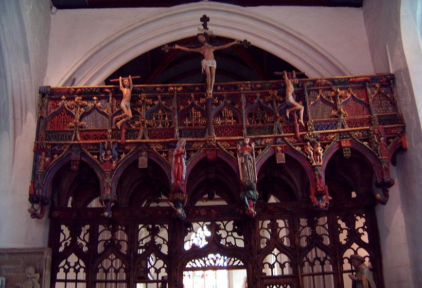 View inside the St. Fiacre Chapel in Le Faouët, France to the highly regarded polychrome timber interior.